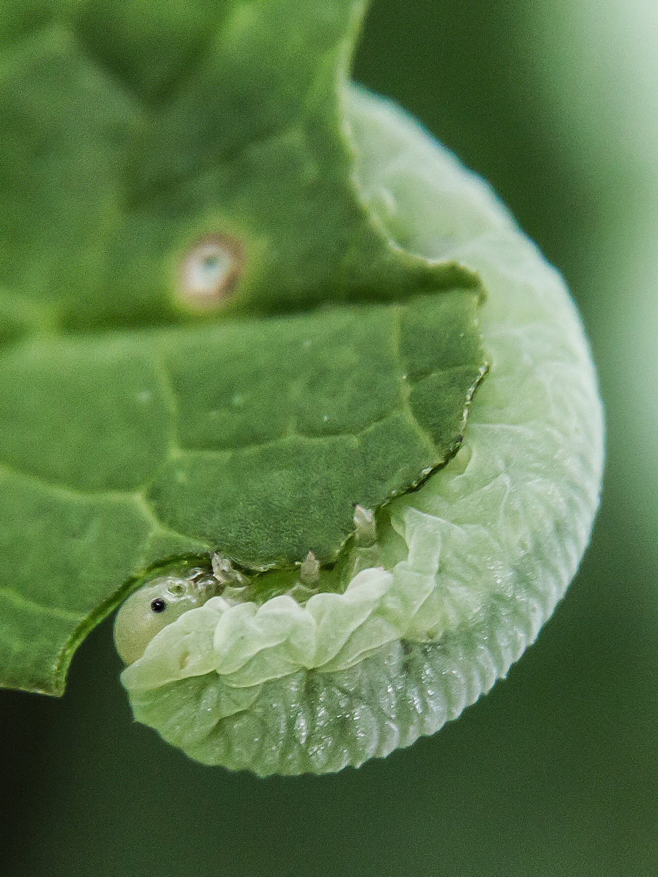 Larva of Eurhadinoceraea ventralis on a Clematis sp.